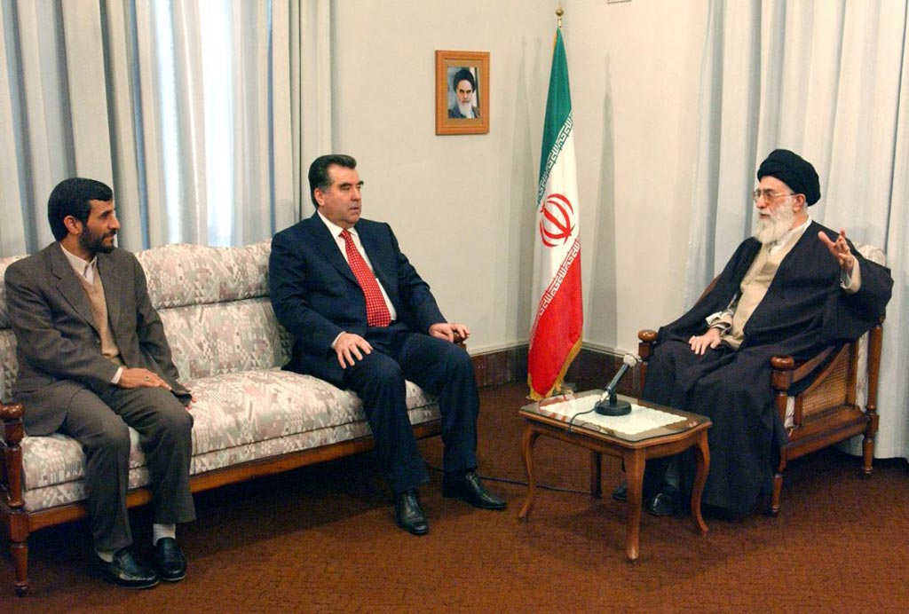 Tajik president Emomali Rahmon meets Ali Khamenei - 18 January 2006 (002) for more in Persian